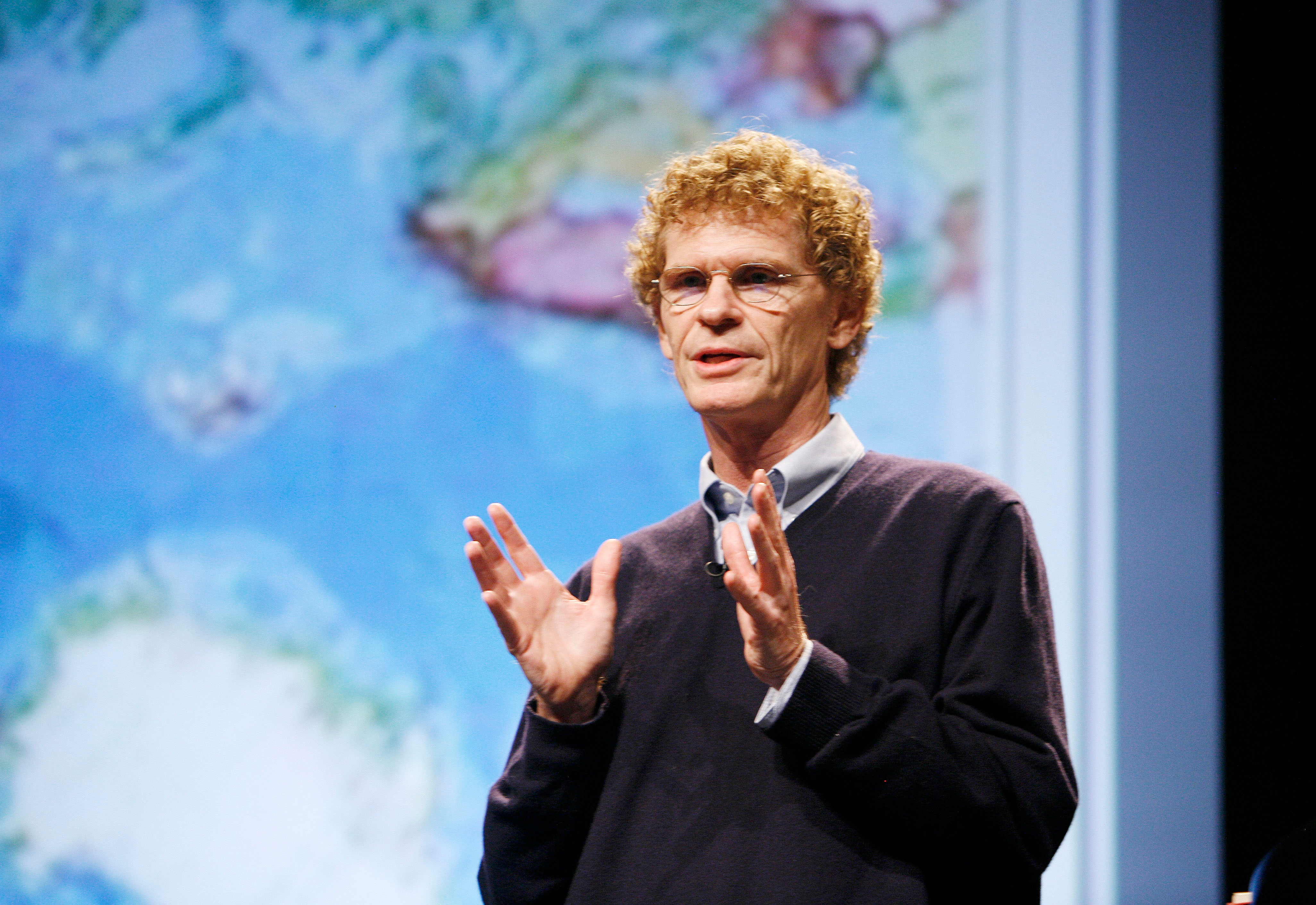 Cary Fowler at PopTech 2007.